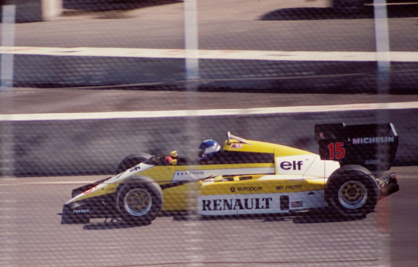 Patrick Tambay, #15 Renault spun out on Lap 25. He had earlier this year lost his seat in the #27 Ferrari to Michele Alboreto.